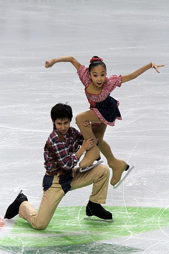 Sui Wenjing / Han Cong at the 2010 Skate America